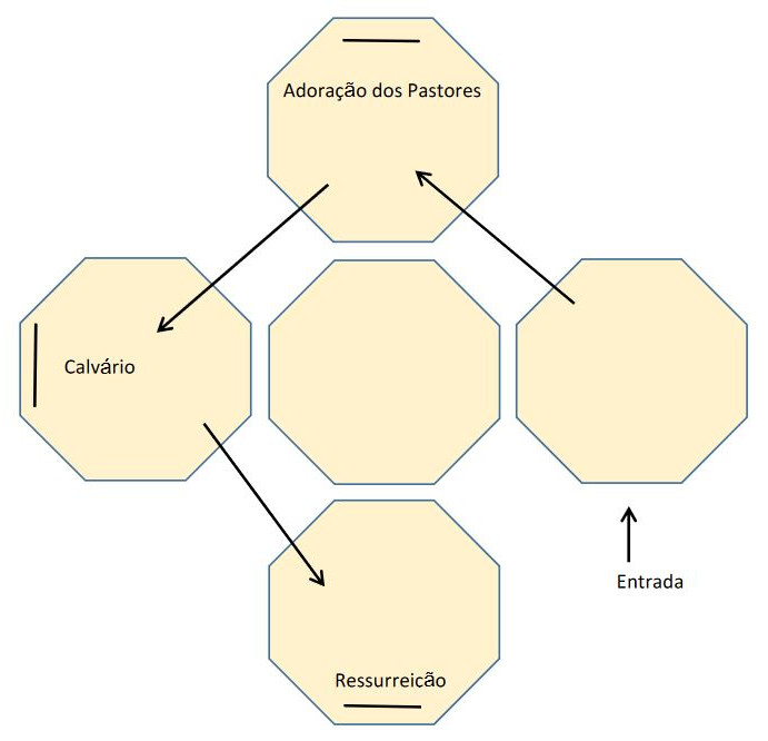 Localização do Tríptico de Gregório Lopes na Igreja do Bom Jesus de Valverde segundo desenho de Manuel J. C. Branco, "A fundação da Igreja do Bom Jesus de Valverde e o Tríptico de Gregório Lopes", in "A Cidade de Évora Boletim de Cultura da Câmara Municipal", nos. 71-76, 1988-1993